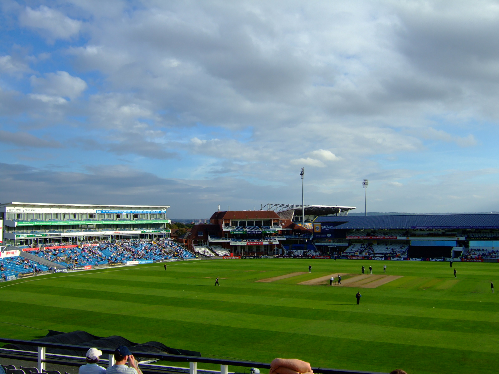 Yorkshire v Hampshire in 2006